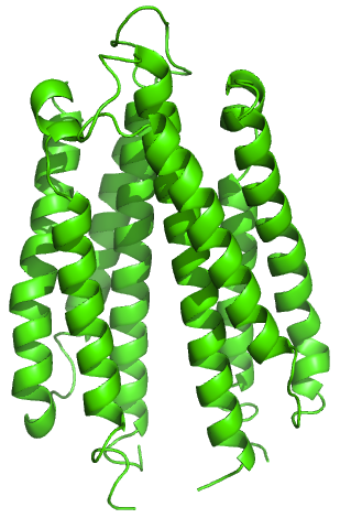 PDB ribbon structure rendered in PyMol